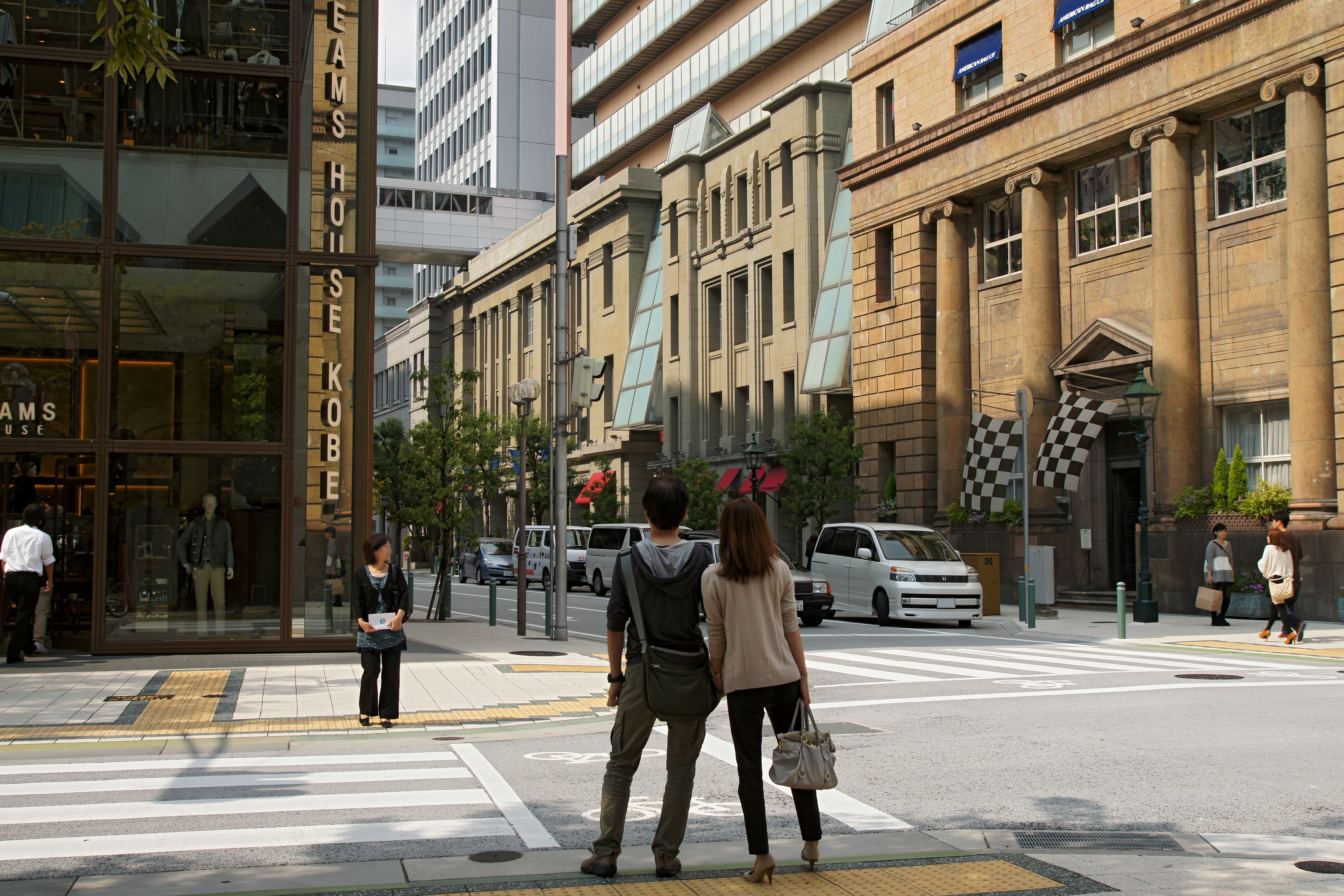 at Former Foreign Settlement of Kobe (Kyukyoryuchi) in Kobe, Hyogo prefecture, Japan.